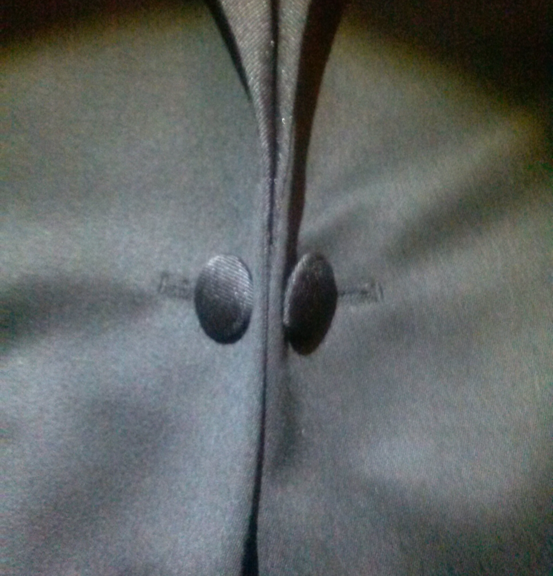 Link closure of a dinner jacket with grosgrain trim.